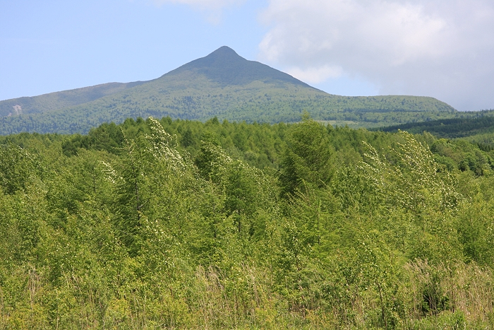 Mount Tokushunbetsu seen from the west in Date, Hokkaido, Japan.